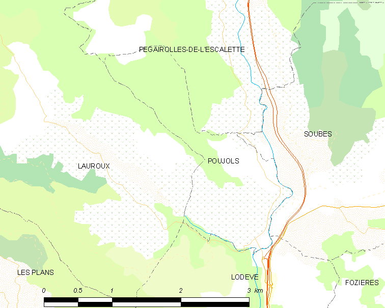 Map commune FR insee code 34212.png - Poujols